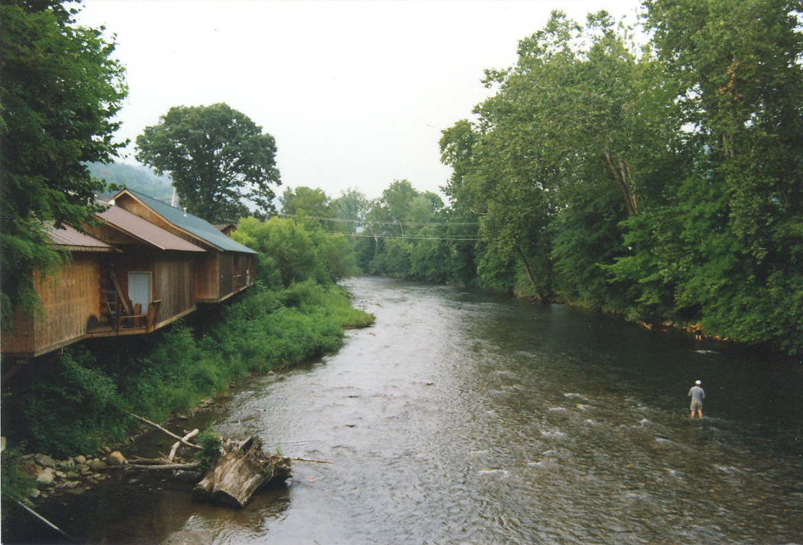 Ocanaluftee River, Cherokee, NC Photo by Jan Kronsell, 2000